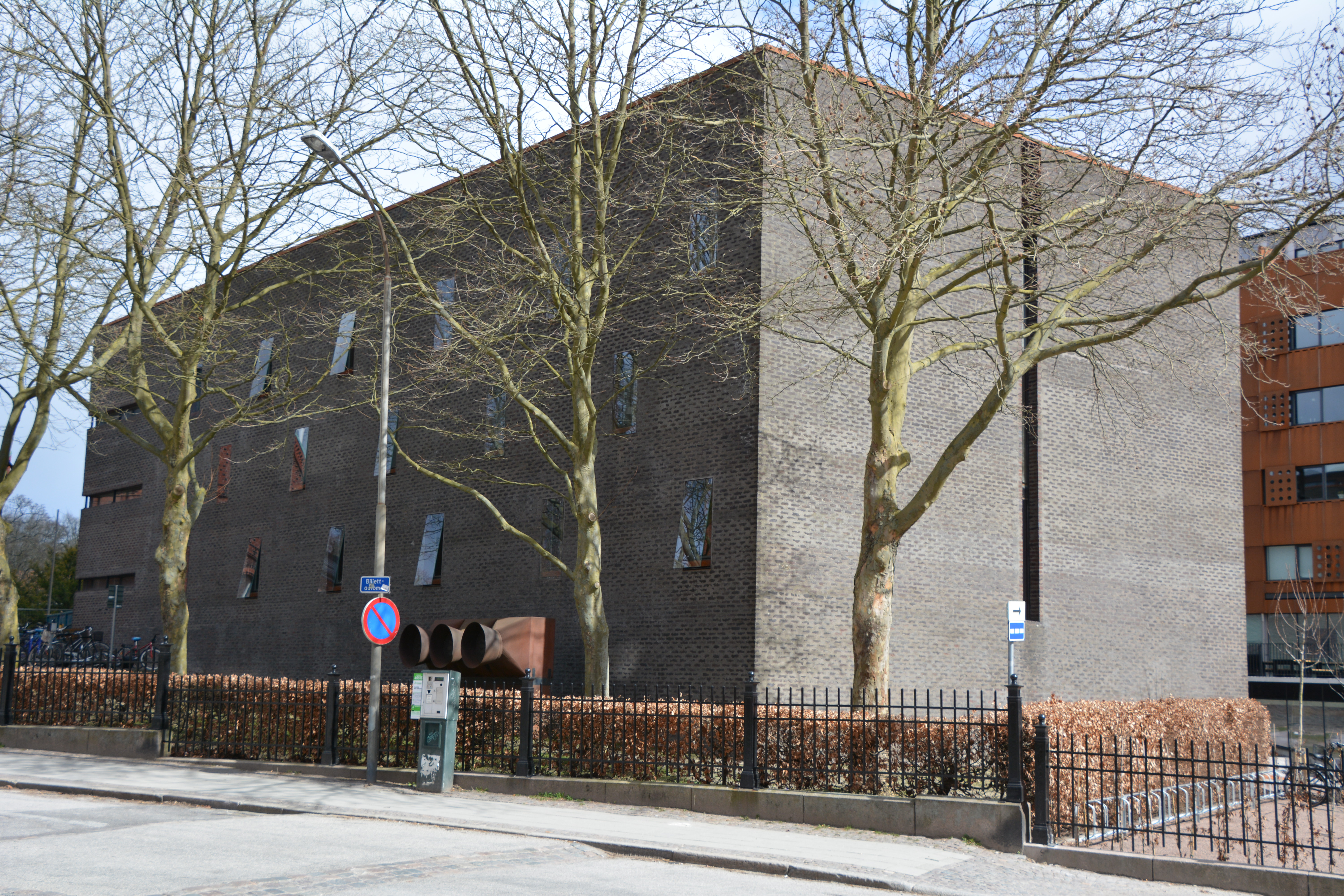 Landsarkivets annex, Arkivgatan, Lund, av Bernt Nyberg